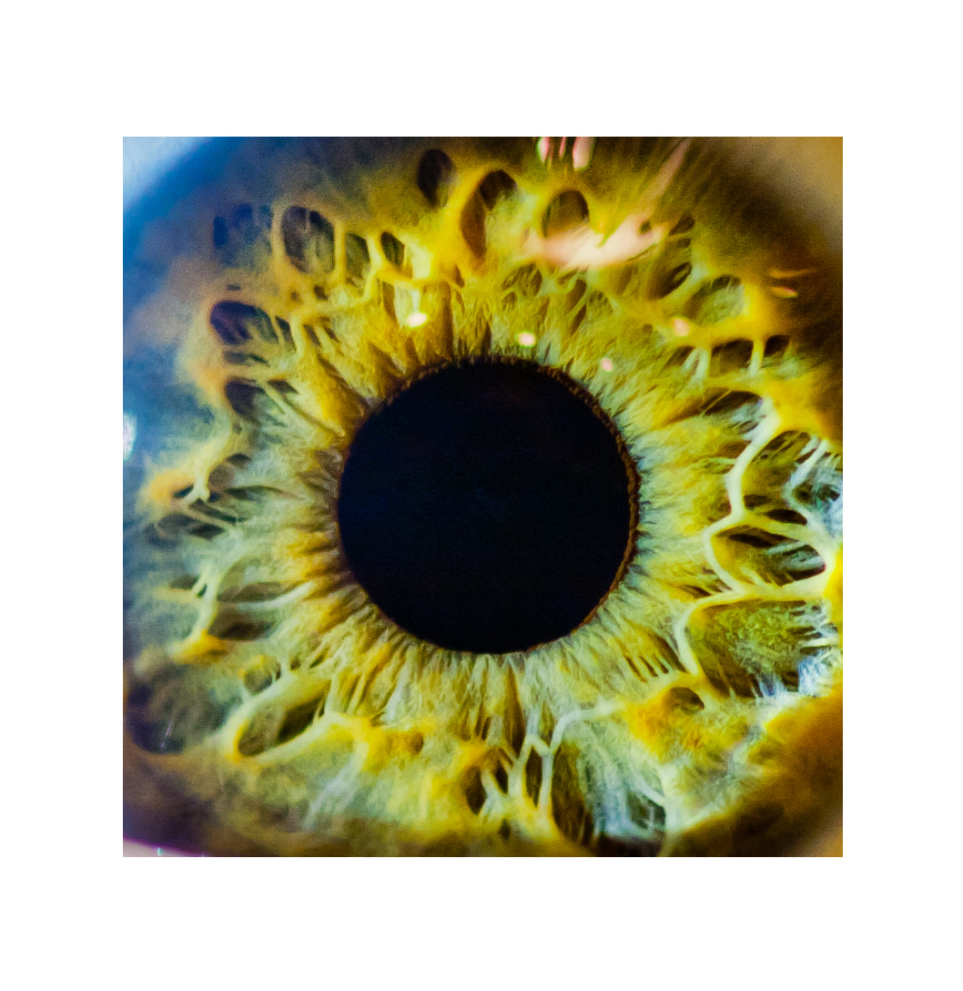 the iris of Irina is like an orange